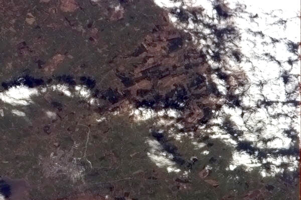 The Stack's Mountains in County Kerry in Ireland, partly covered in cloud, with the town of Tralee at bottom left.